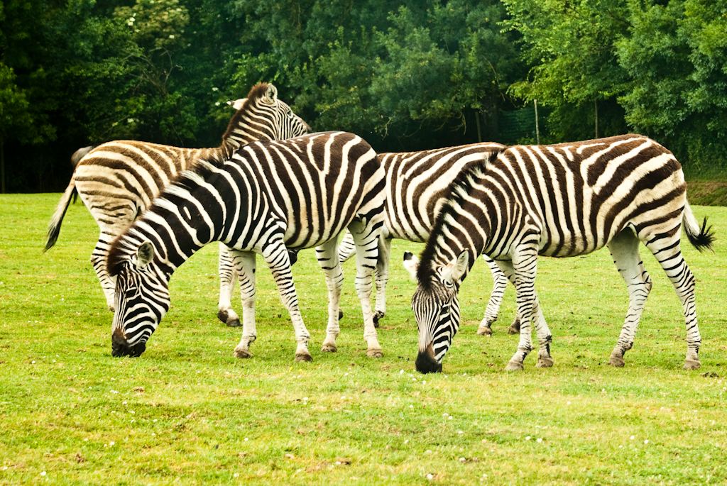 Zebras from Planete Sauvage (Port-Saint-Pere / FRANCE)